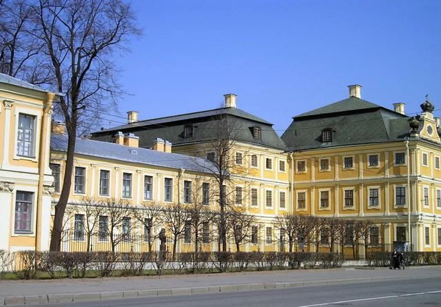 Saint Petersburg (Russia), Menshikov Palace.